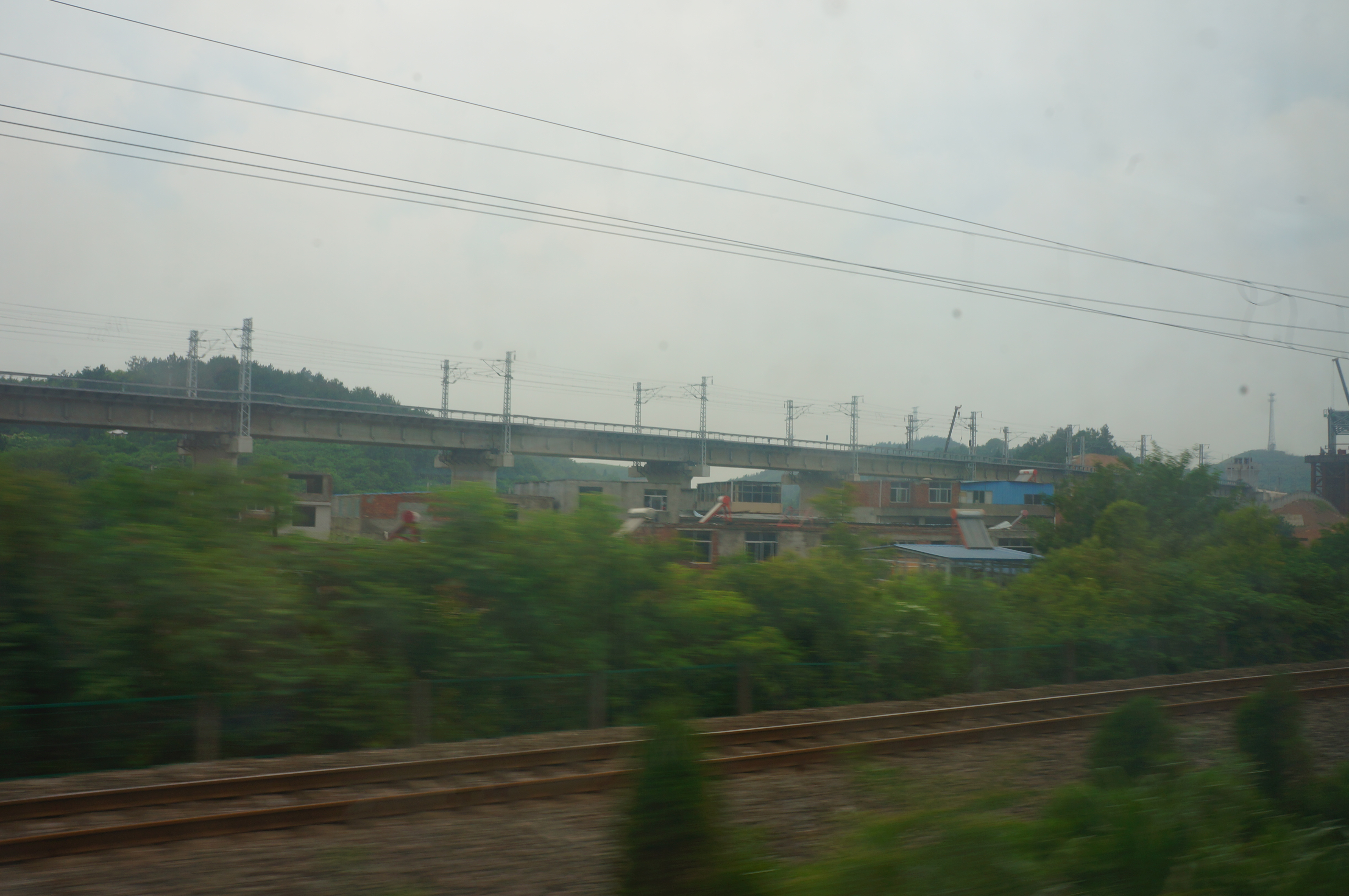 201705 Wuhan–Jiujiang HSRailway under consturction